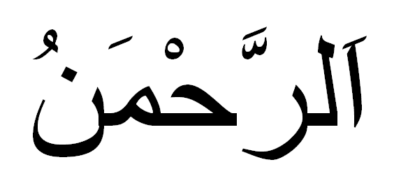 Name of God in Islam